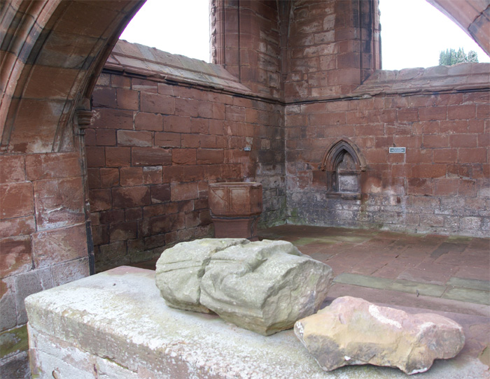 Fortrose Cathedral, Highlands, Scotland - eastern part of the south aisle with piscina, font and effigy of Euphemia, Countess of Ross